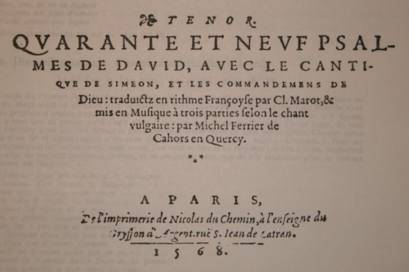 Title page of Michel Ferrier's "Psalmes de David", 1568.